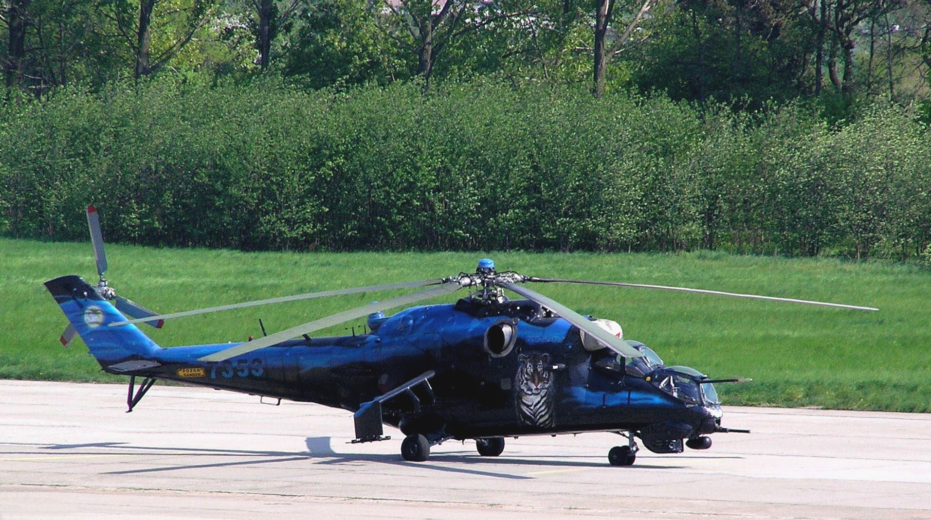 Czech Mi-24V Hind Helicopter in unique Tiger color scheme